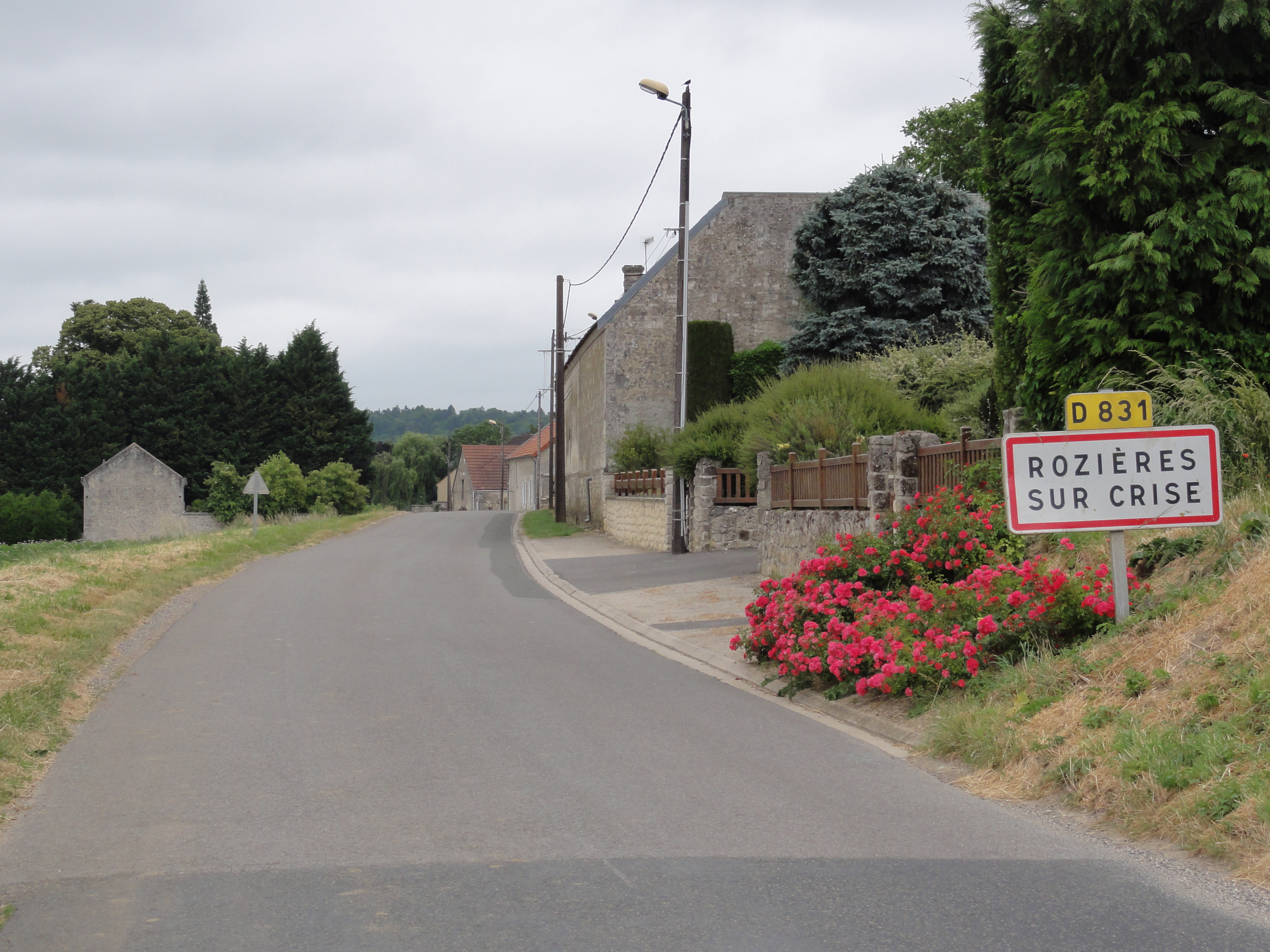 Rozières-sur-Crise (Aisne) city limit sign